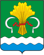 Mamadysh rayon (Tatarstan), coat of arms